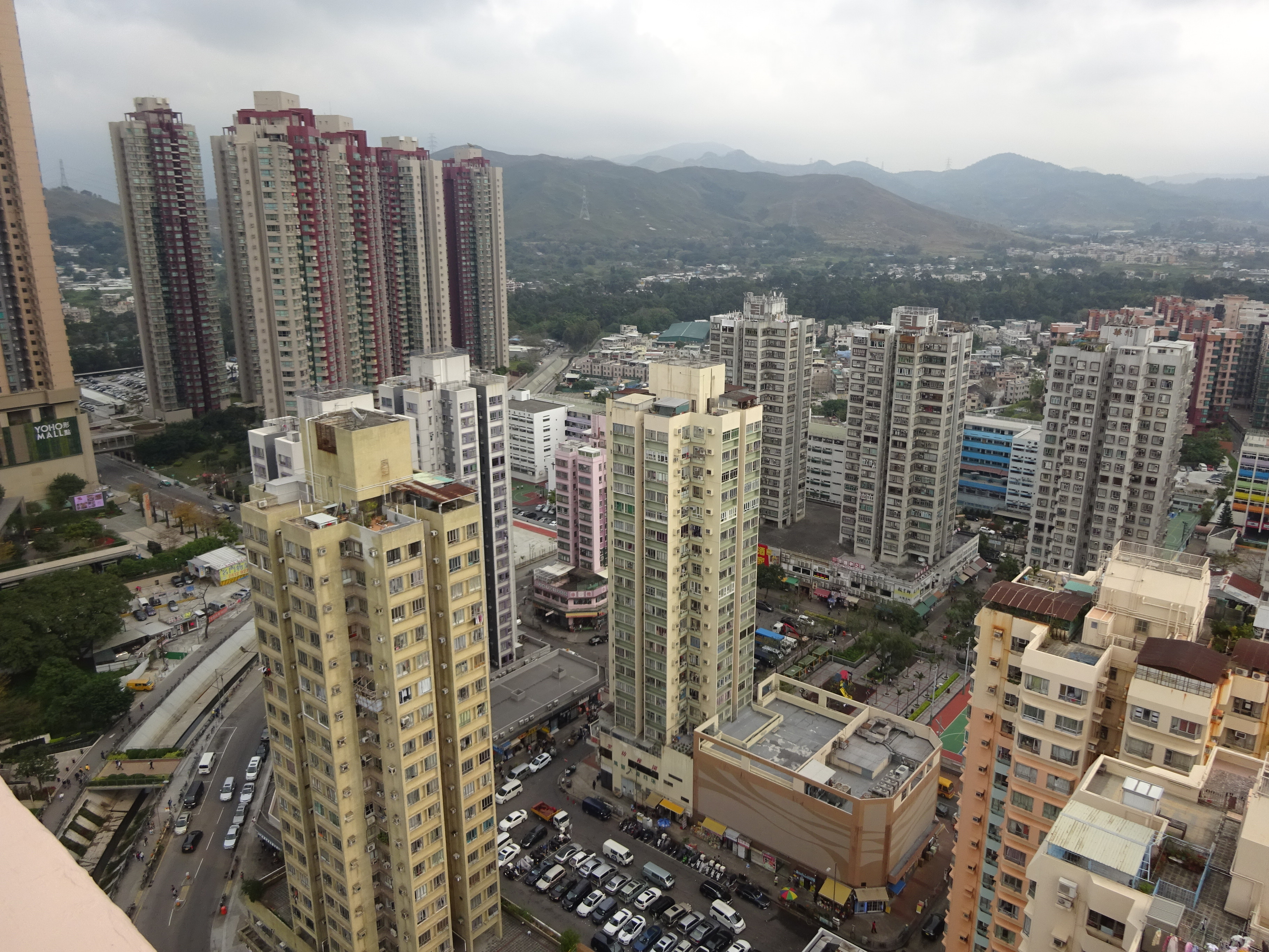 HK Yuen Long 順豐大廈 view Shun Fung Building veiw in March 2016